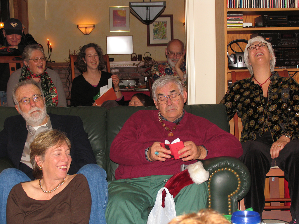 Paul O. Williams reading from his book of cat haiku. Christmastime 2006 at the Yuki Teikei Haiku Society holiday celebration. He is wearing one of his signature semi-precious stone necklaces; his trademark Santa hat is on his lap.